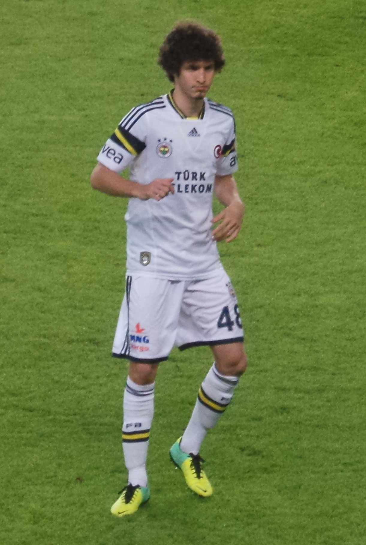 Salih Uçan vs Pendik